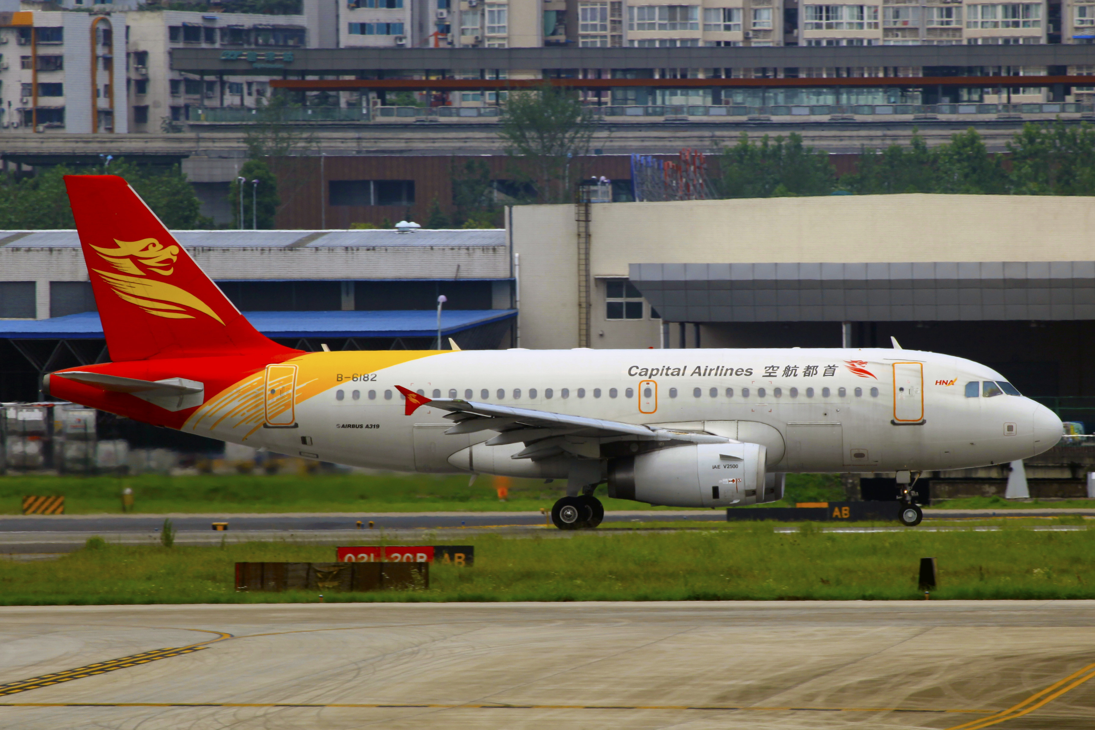 B-6182 | Capital Airlines | Airbus A319-132 | Chongqing Jiangbei International Airport [CKG]